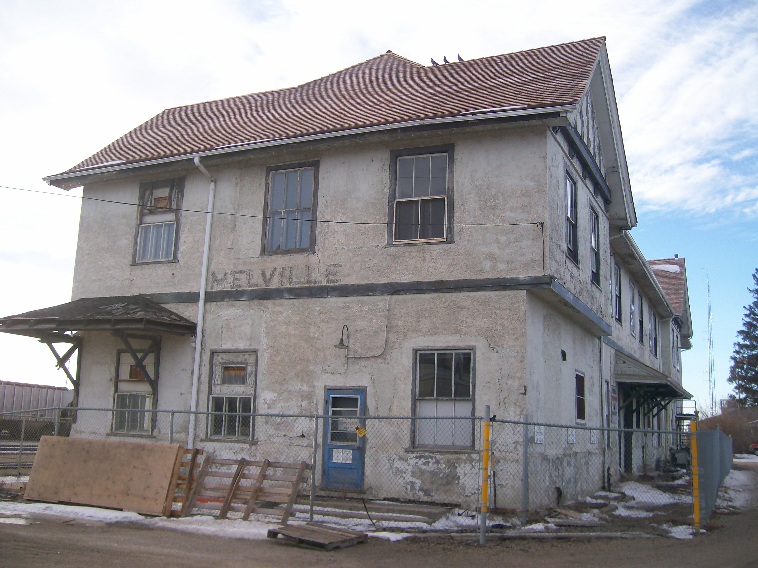 The derelict former station building at the VIA Rail station in Melville, Saskatchewan, Canada, seen in January 2012.